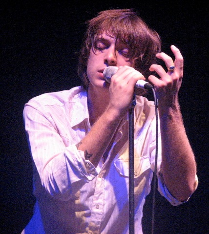 Paolo Nutini - Sydney Enmore Theatre - 30th October 2009